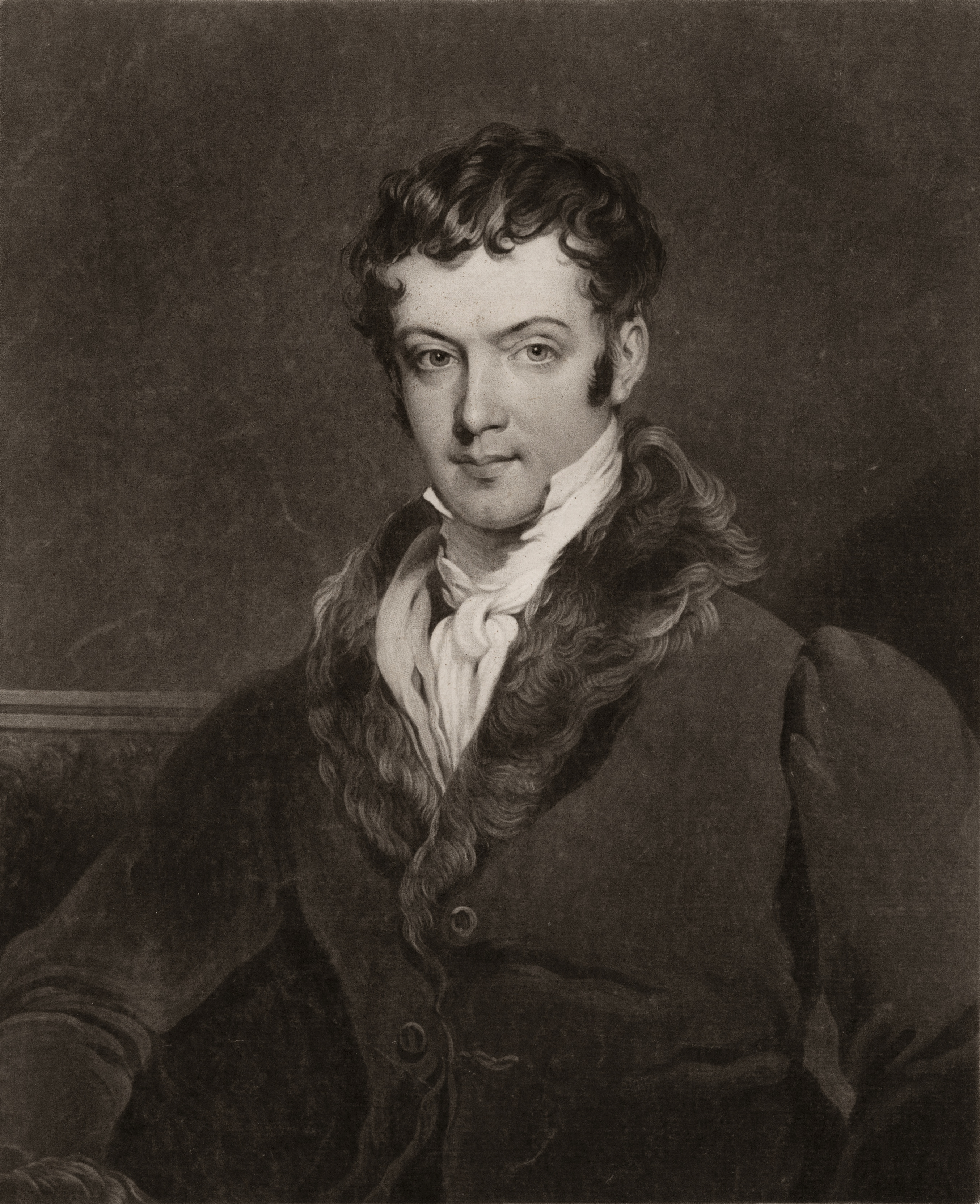 A mezzotint print portrait of the American author Washington Irving (1783– 1859) by the British engraver Charles Turner (1774– 1857) published in 1825, after a portrait painted by Gilbert Stuart Newton (1794–1835) in 1820. Newton painted two portraits of his friend Irving. The larger, which this print is based on, was painted in London in May 1920 while Irving was making arrangements for the first English edition of the The Sketch Book. The painting is currently in the collections of the Historic Hudson Valley. The file has been cropped to only show the portrait and not the surrounding paper.